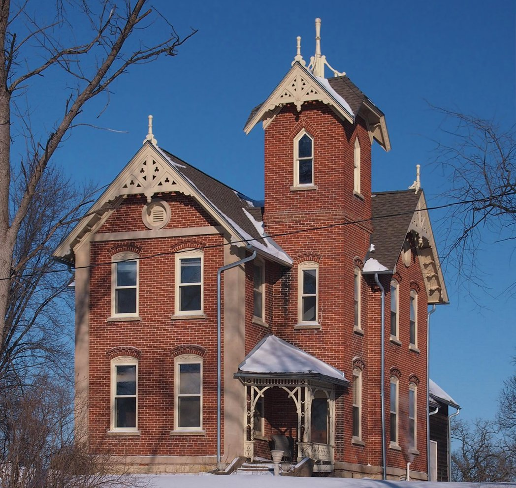 Henry Stussi House, 9097 Mendel Rd, Stillwater Township, Minnesota, USA. Viewed from the southeast.